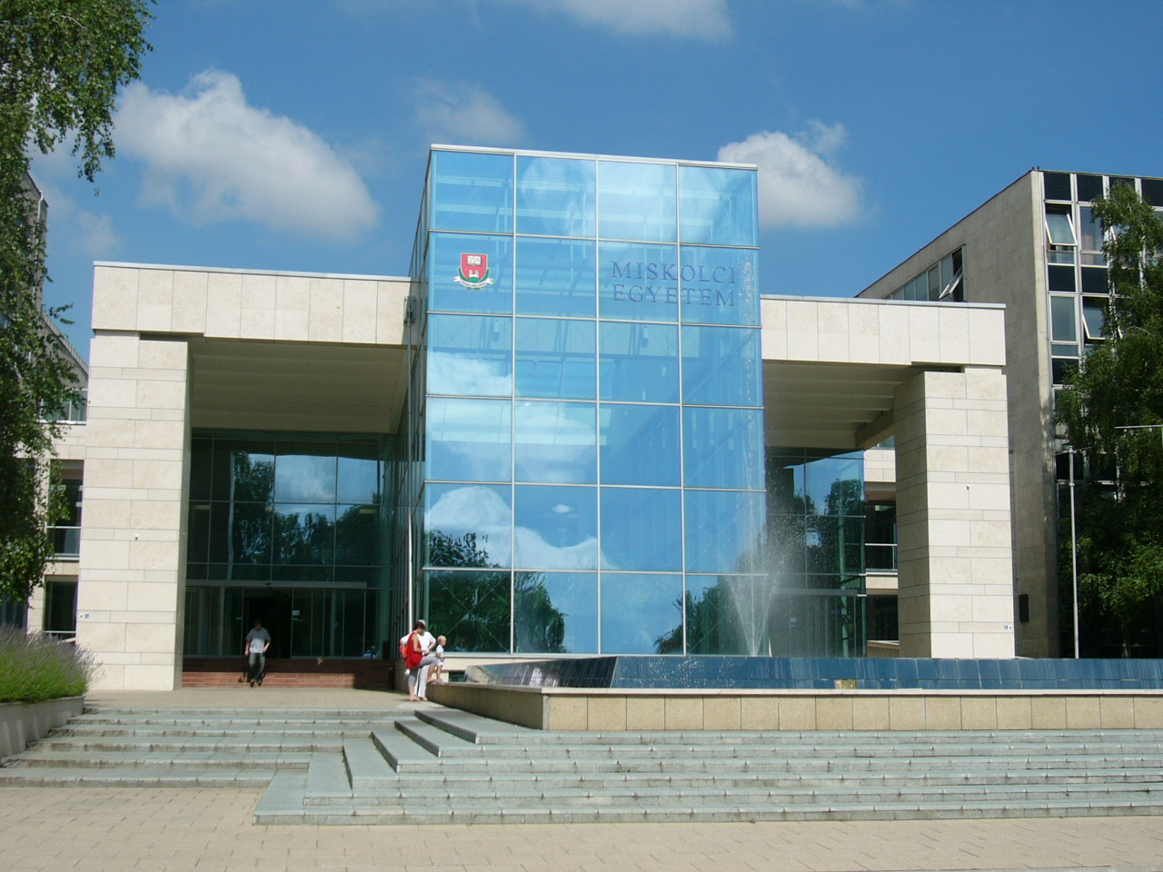 Main entrance of the University of Miskolc, Hungary. Self made picture.